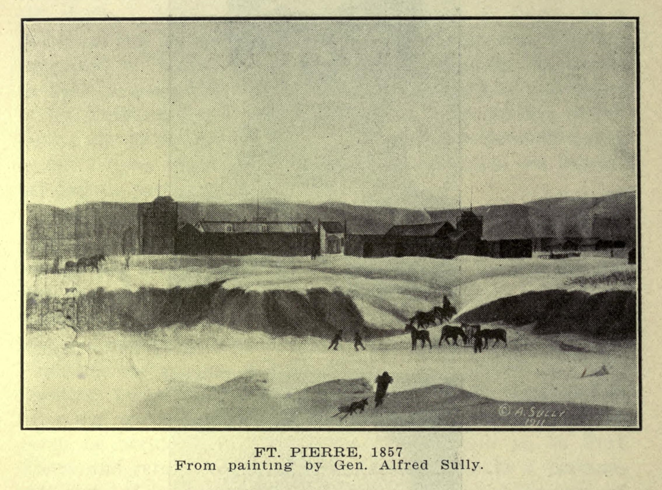 The Trading post Fort Pierre in South Dakota, 1857, seen from across the Missouri.